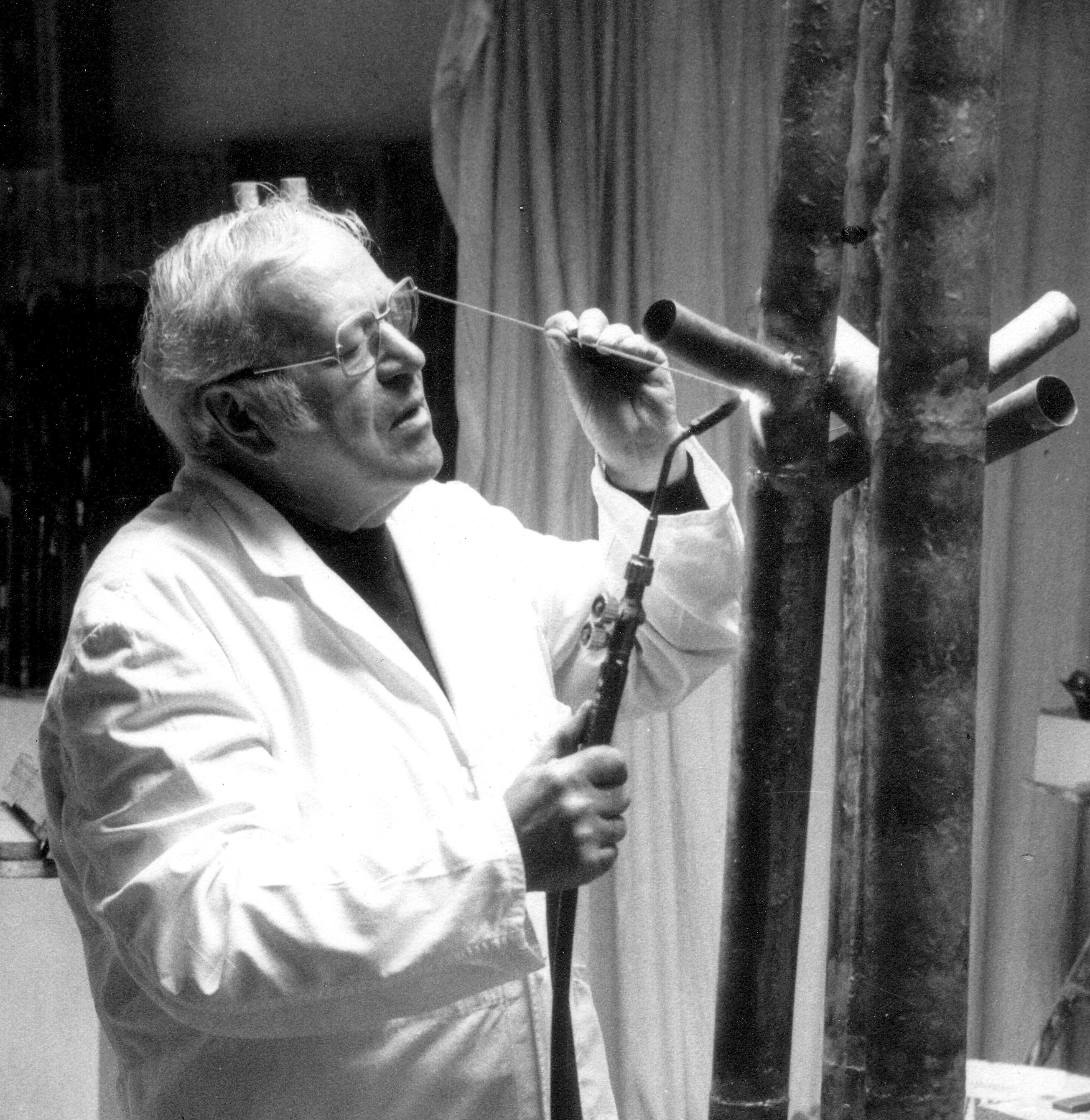 Albrecht Glenz